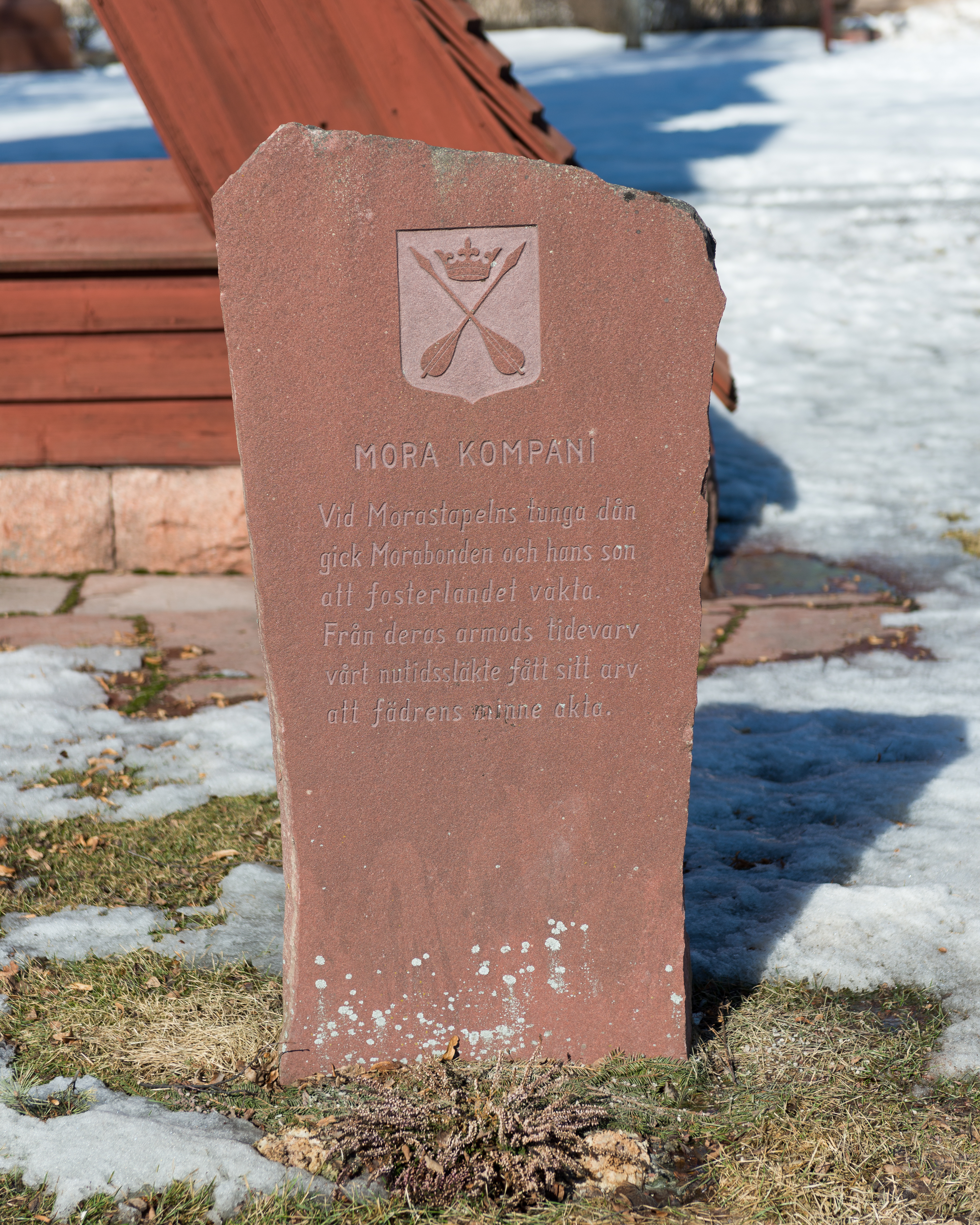 Minnessten, Mora kompani, Mora.